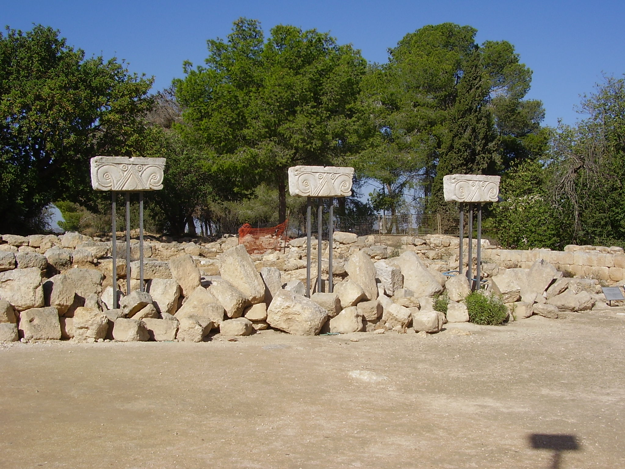 archeological garden in kibbutz ramat rachel